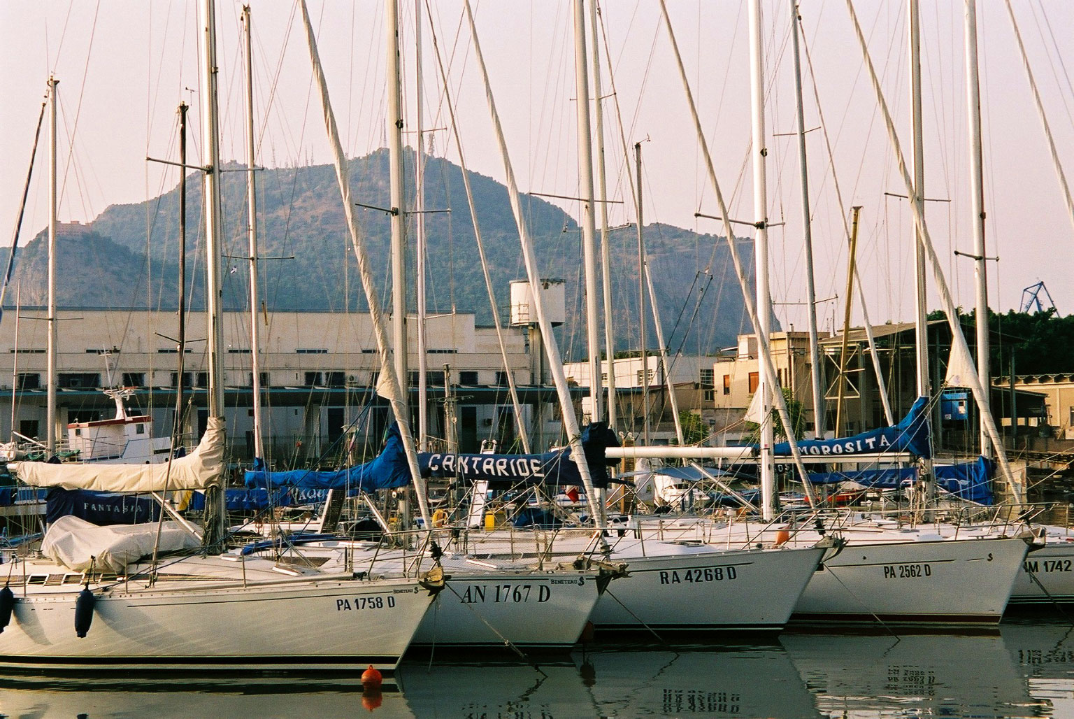 Harbour of Palermo Sailing vessels in front of Monte Pellegrino